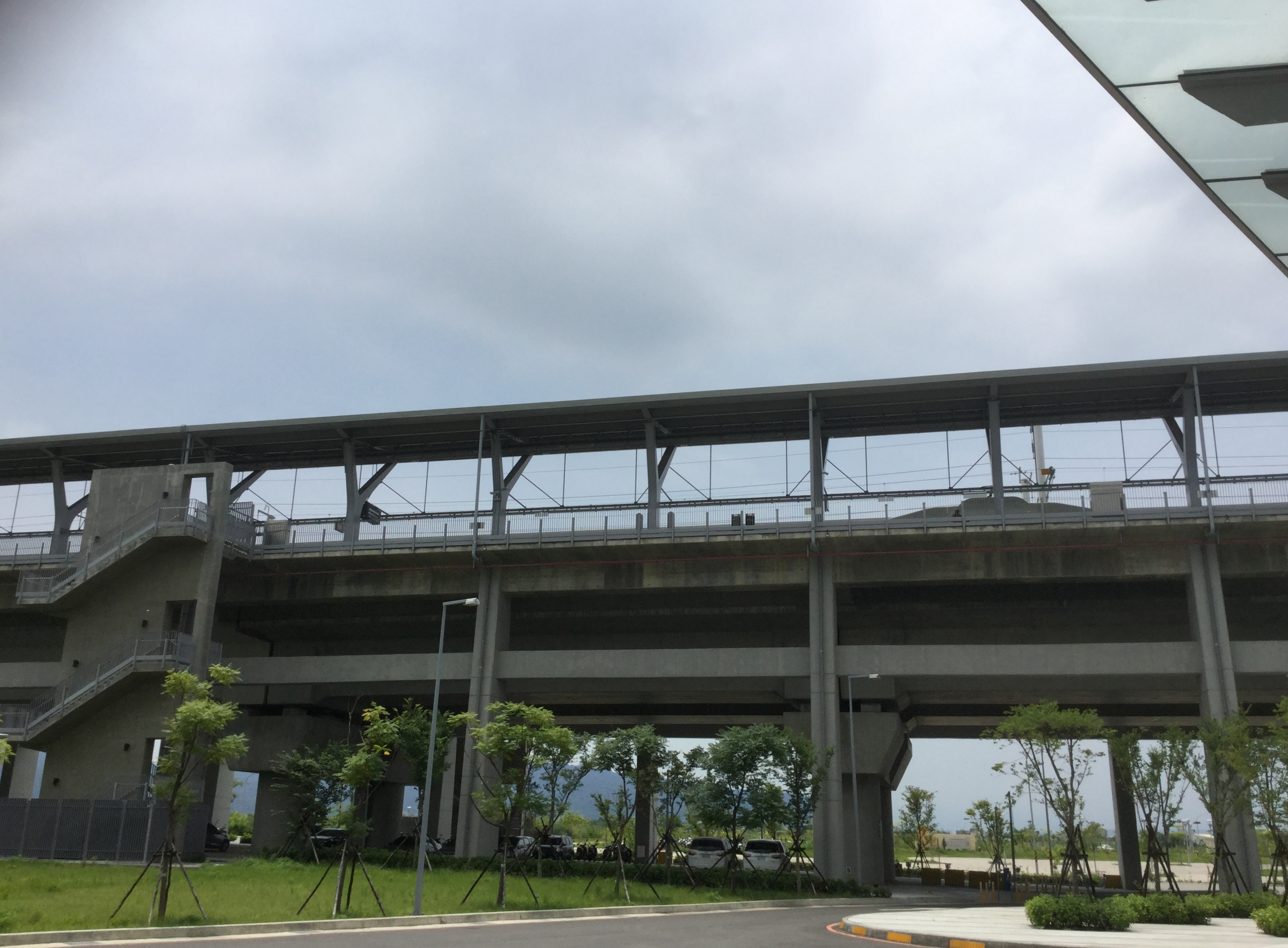 THSR Changhua Station platform